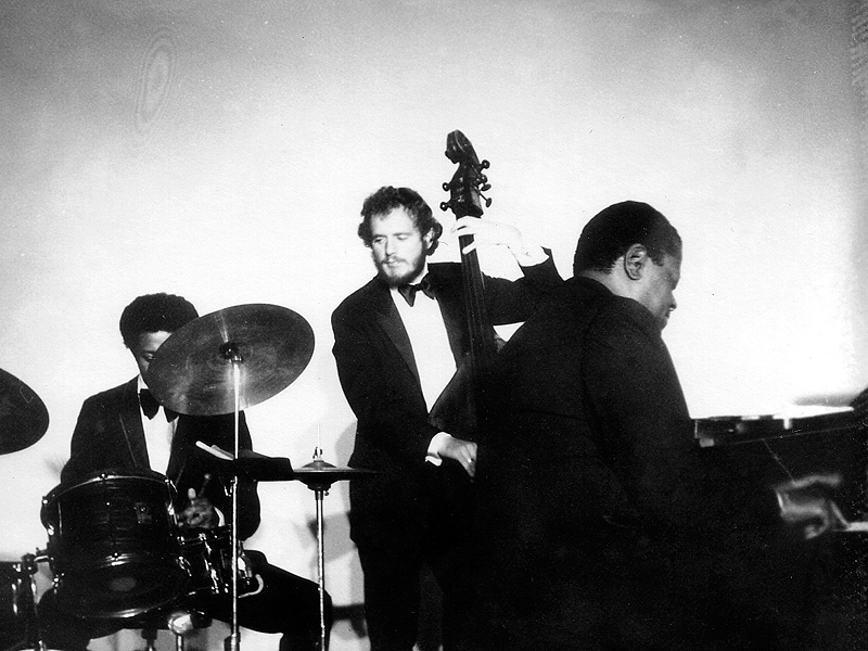 Niels-Henning Ørsted Pedersen in concert with the Oscar Peterson Trio 1971 in Aachen (Germany)